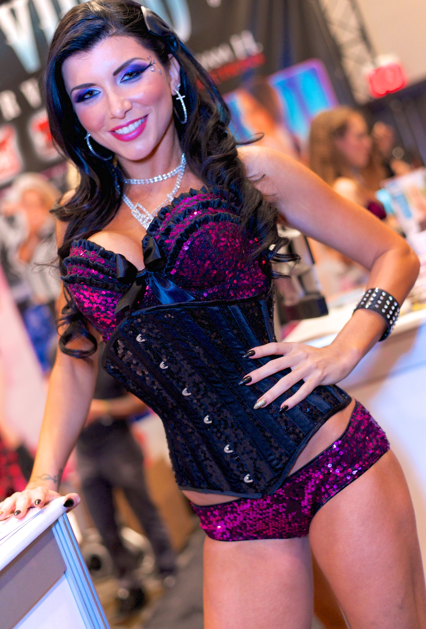 Romi Rain at the 2014 AVN Adult Entertainment Expo AEE at Hard Rock Hotel - Las Vegas. 2014 © GEC. Video footage